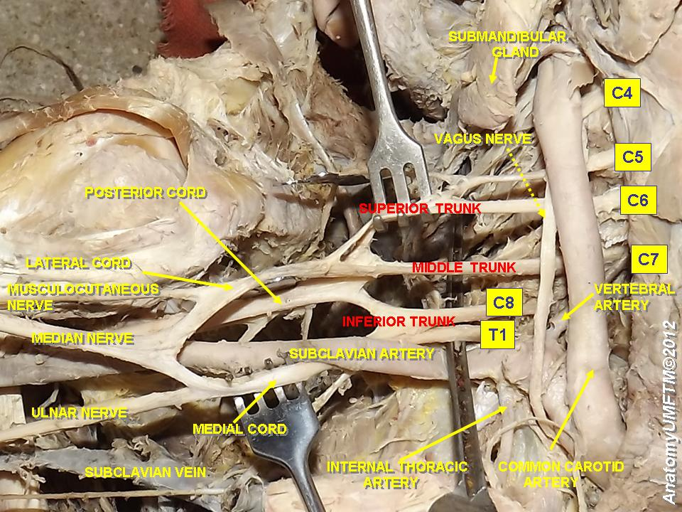 Anatomical dissection